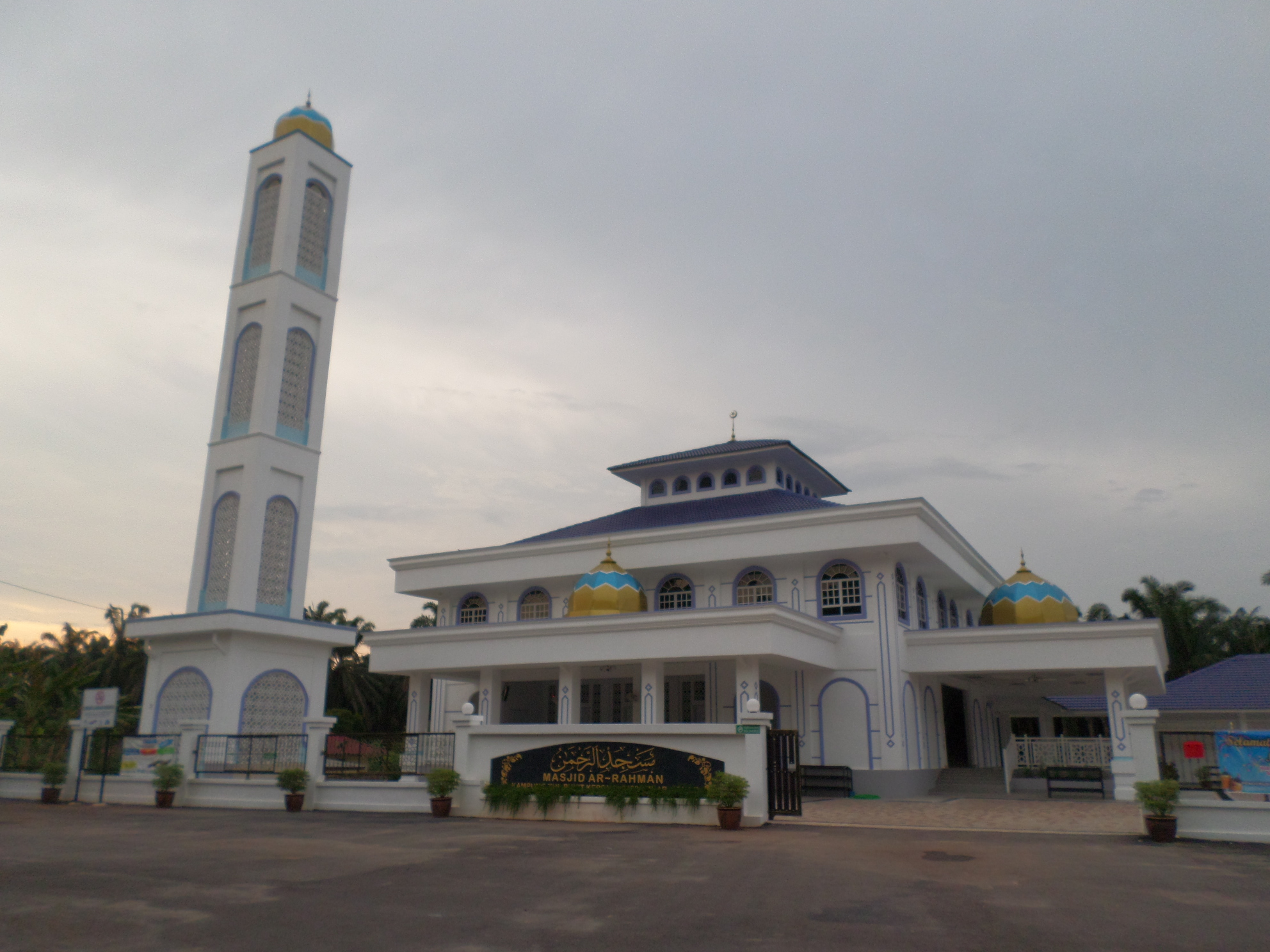 Ar-Rahman Mosque, Tui Village, Bukit Kepong, Muar, Johor, Malaysia